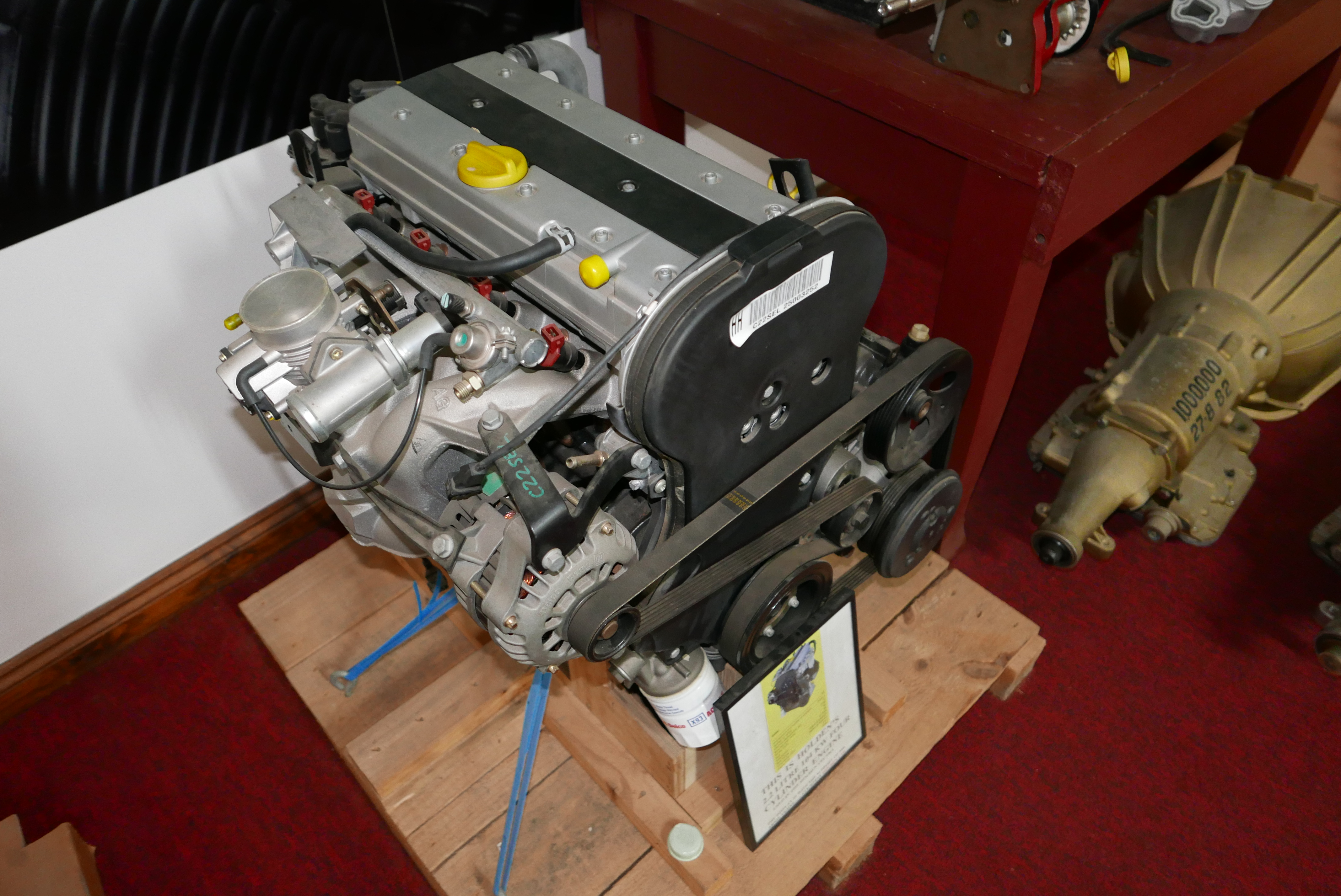 2198 cc GM C22SEL inline-four engine. Photographed at the National Holden Motor Museum, Echuca, Victoria, Australia.This is Holden’s 104 kW (139 hp) engine used in the Holden Vectra (JS).